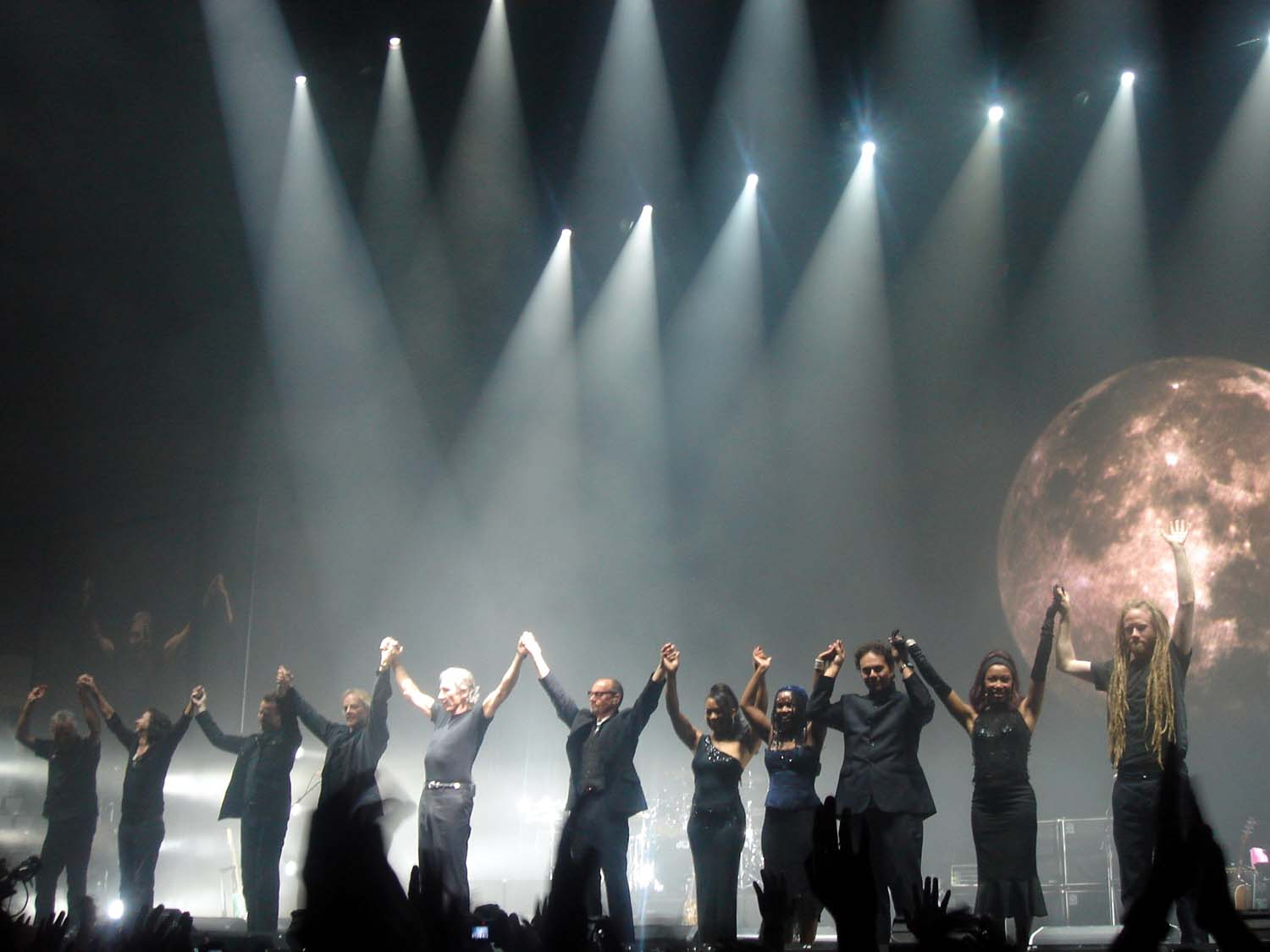 Roger Waters and his musicians in the tour Dark Side of the Moon live.